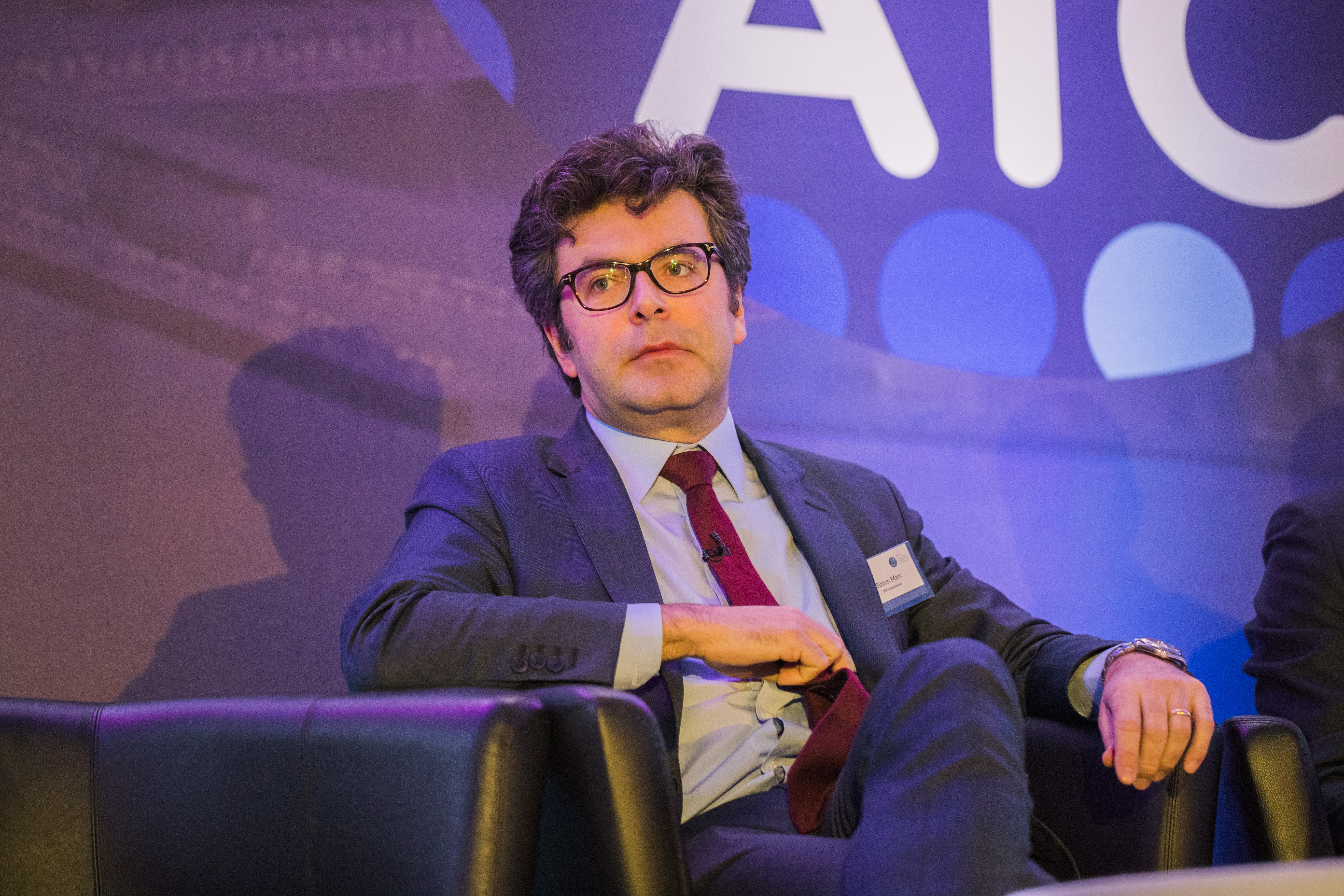 Simon Marc (Head of Private Equity, PSP) spoke to over 320 students at the 2018 Alternative Investments Conference in London. Simon Marc has been titled as several publications as one of 'Europe's Most Influential Private Equity Investors'. PSP continues to support the conference and is a Silver Sponsor (AIC 2019).